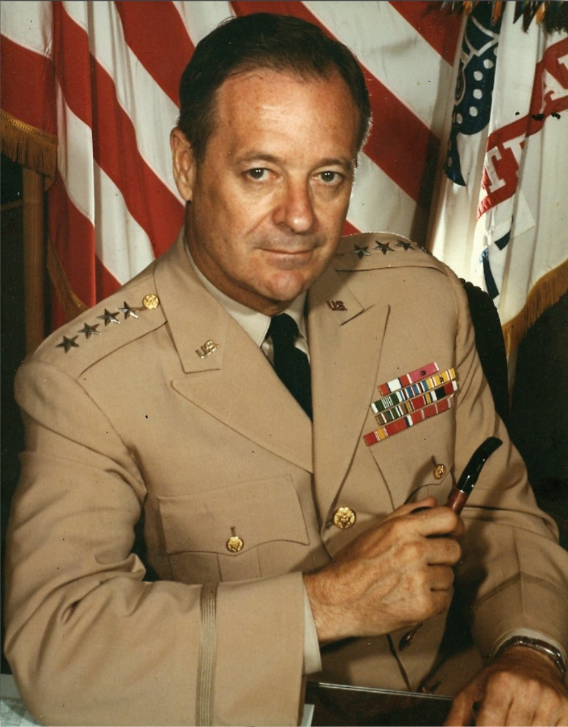 GEN Frank S. Besson Jr. from [1]